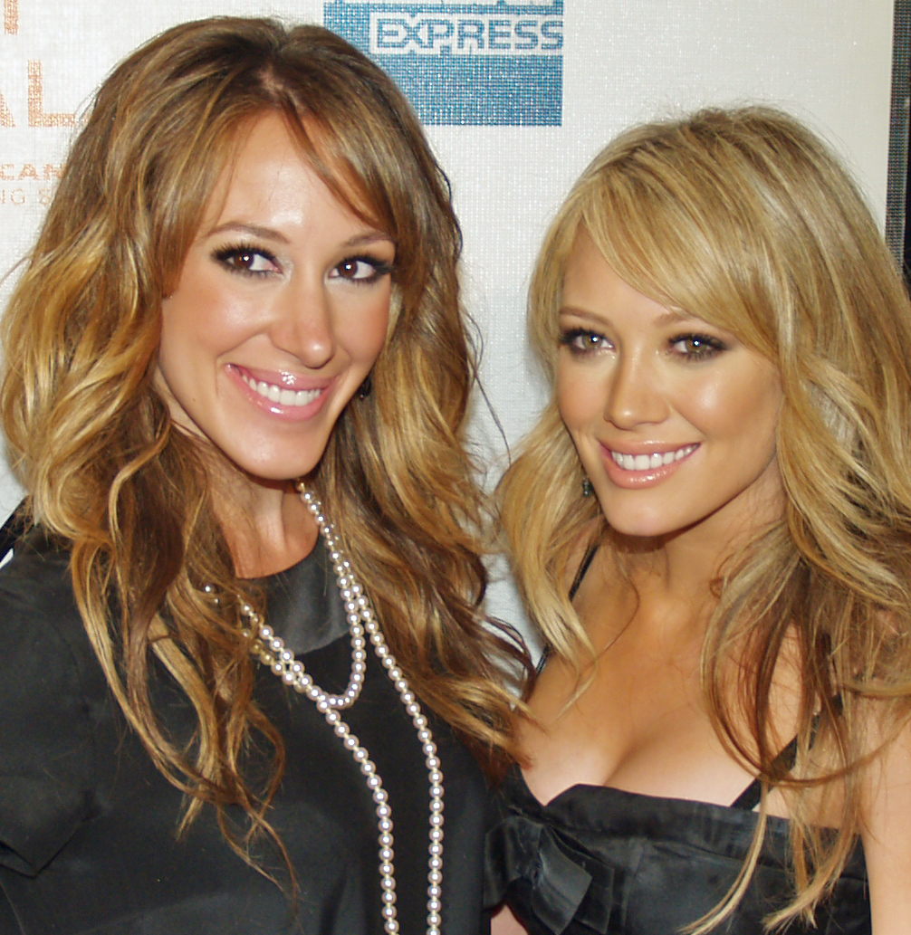 Haylie Duff and Hilary Duff at the premiere of War, Inc. at the 2008 Tribeca Film Festival.